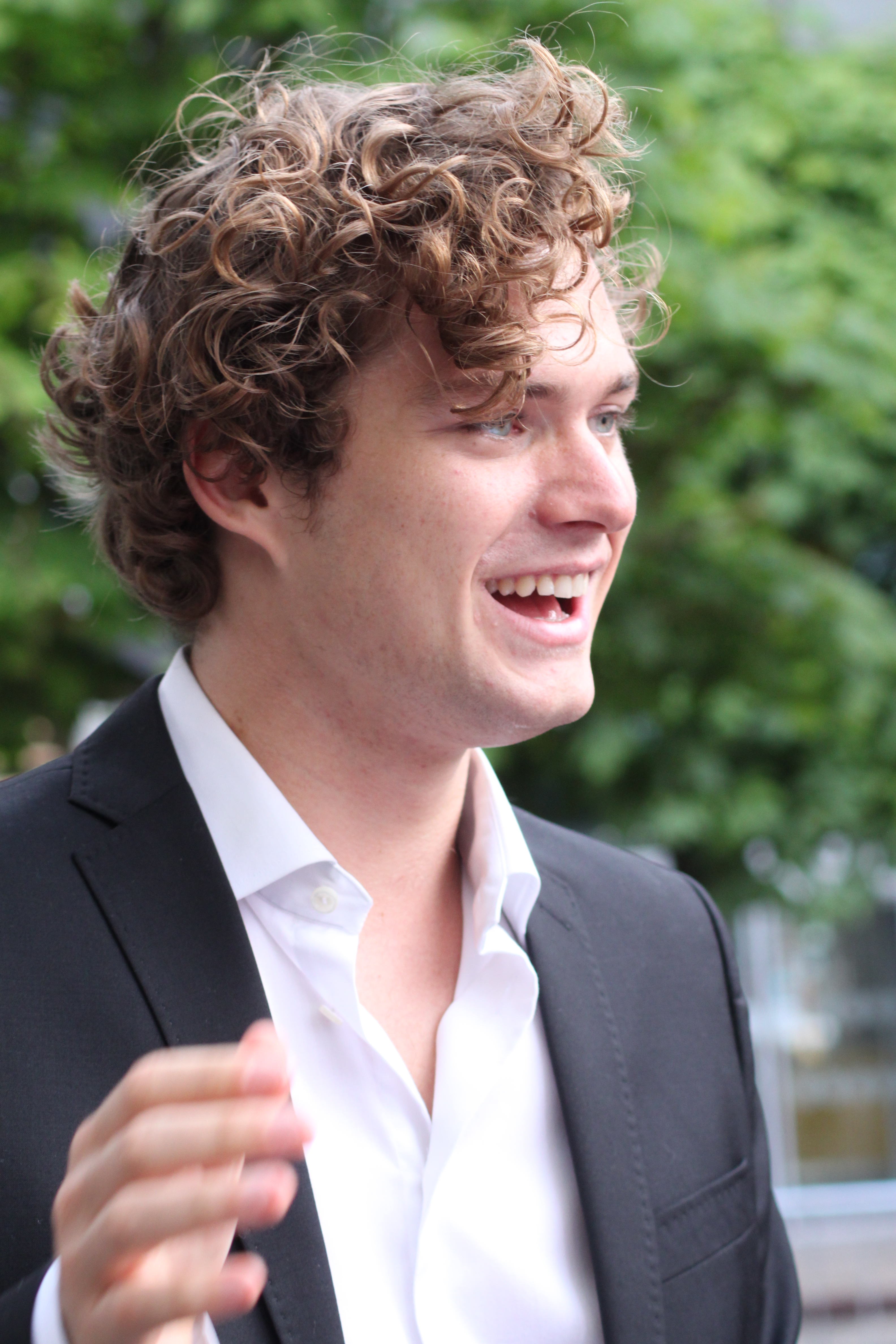 Loras Tyrell in Game of Thrones. Red Carpet @ HBO GoT Exhibition, Belfast 10 June 2014